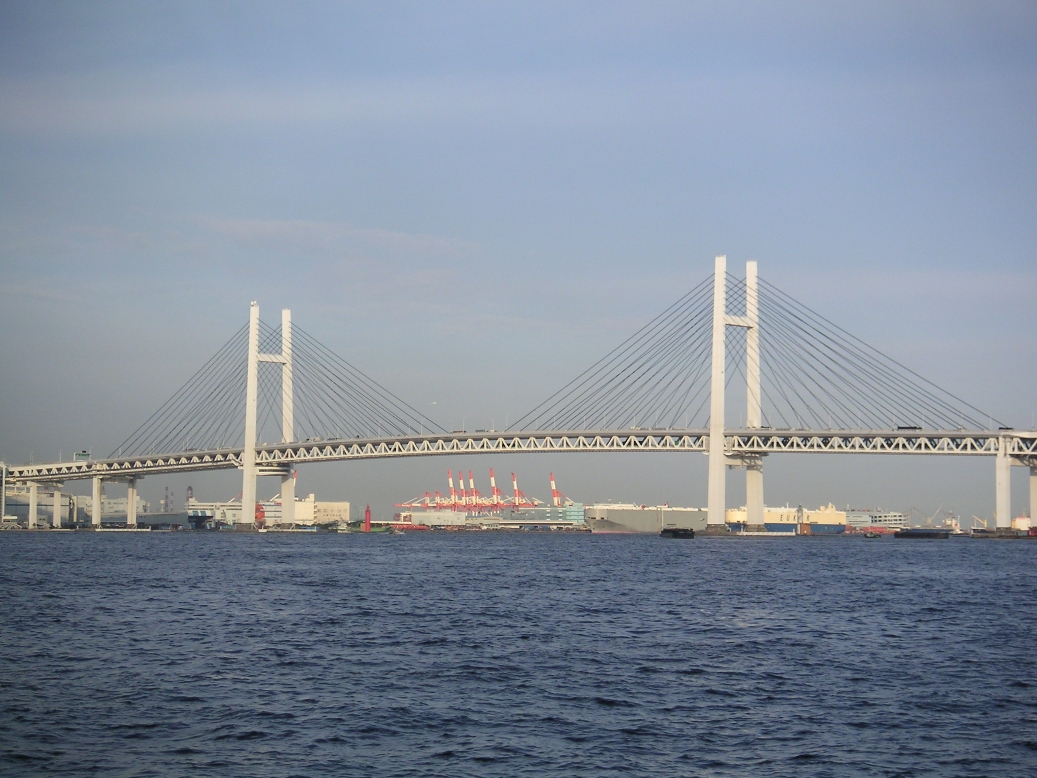 Yokohama Bay Bridge, Yokohama City, Kanagawa Prefecture, Japan